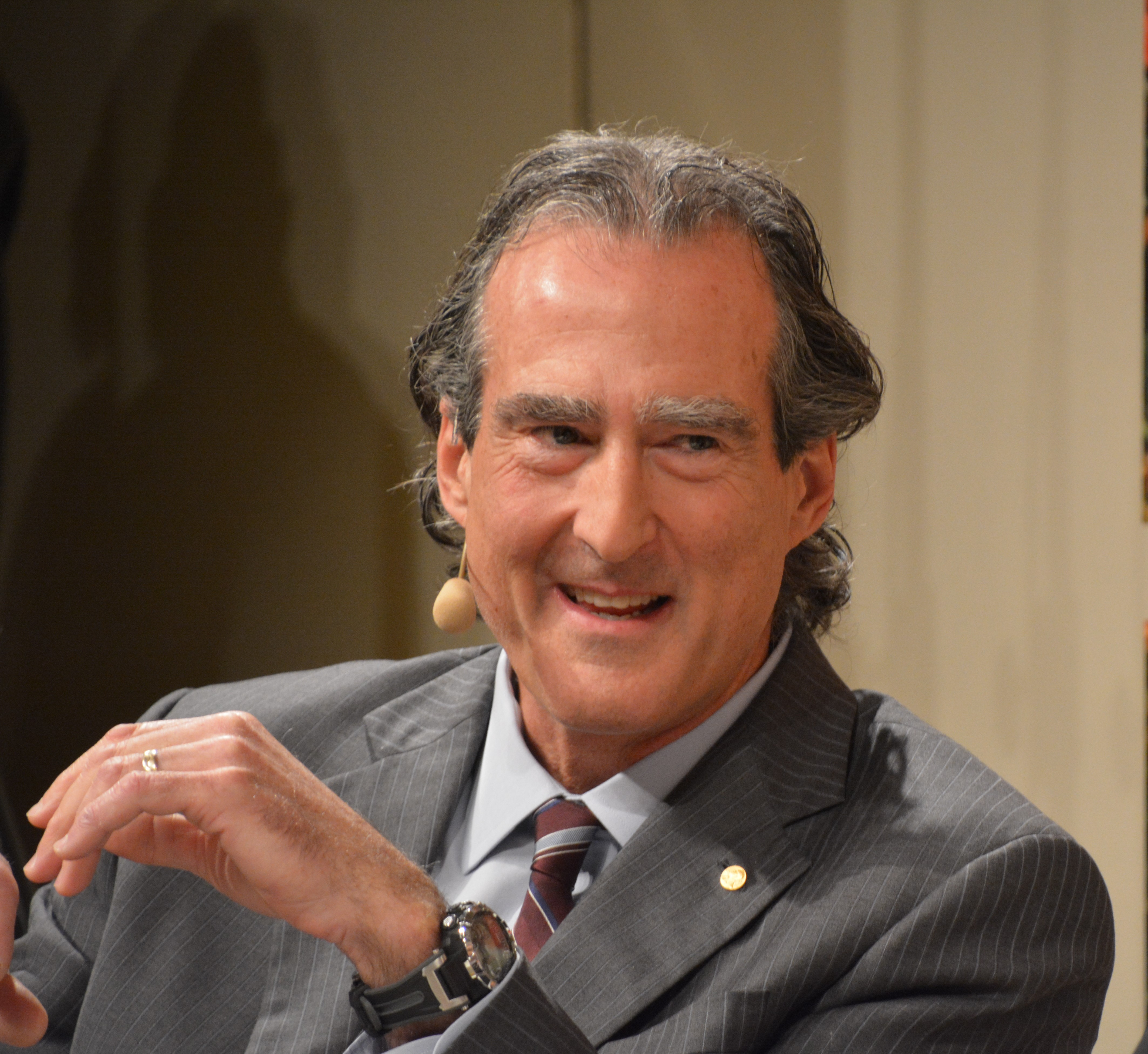 Craig Mello at Nobel Week Dialogue 2014